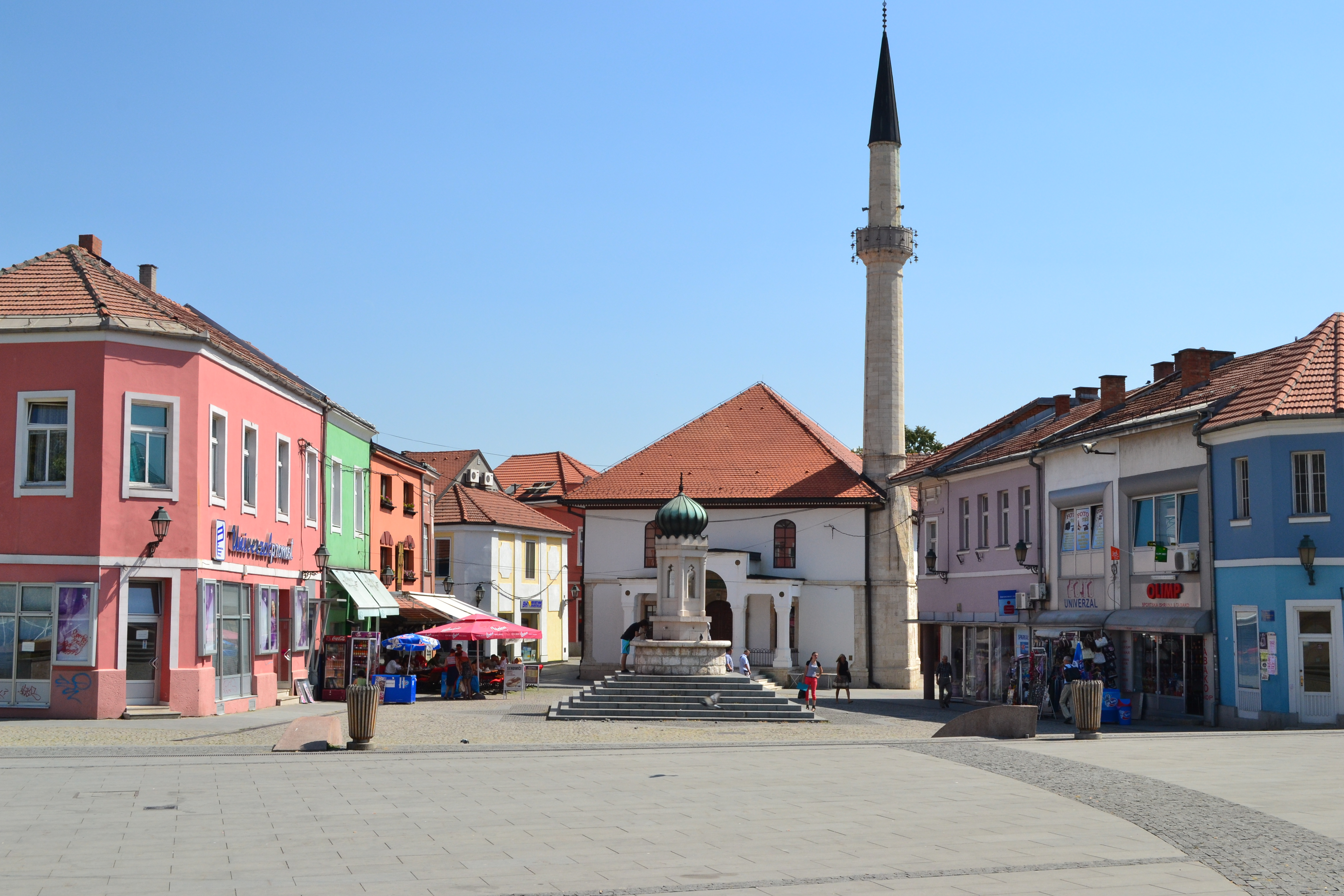 Hadži Hasanova (Čaršijska) mosque